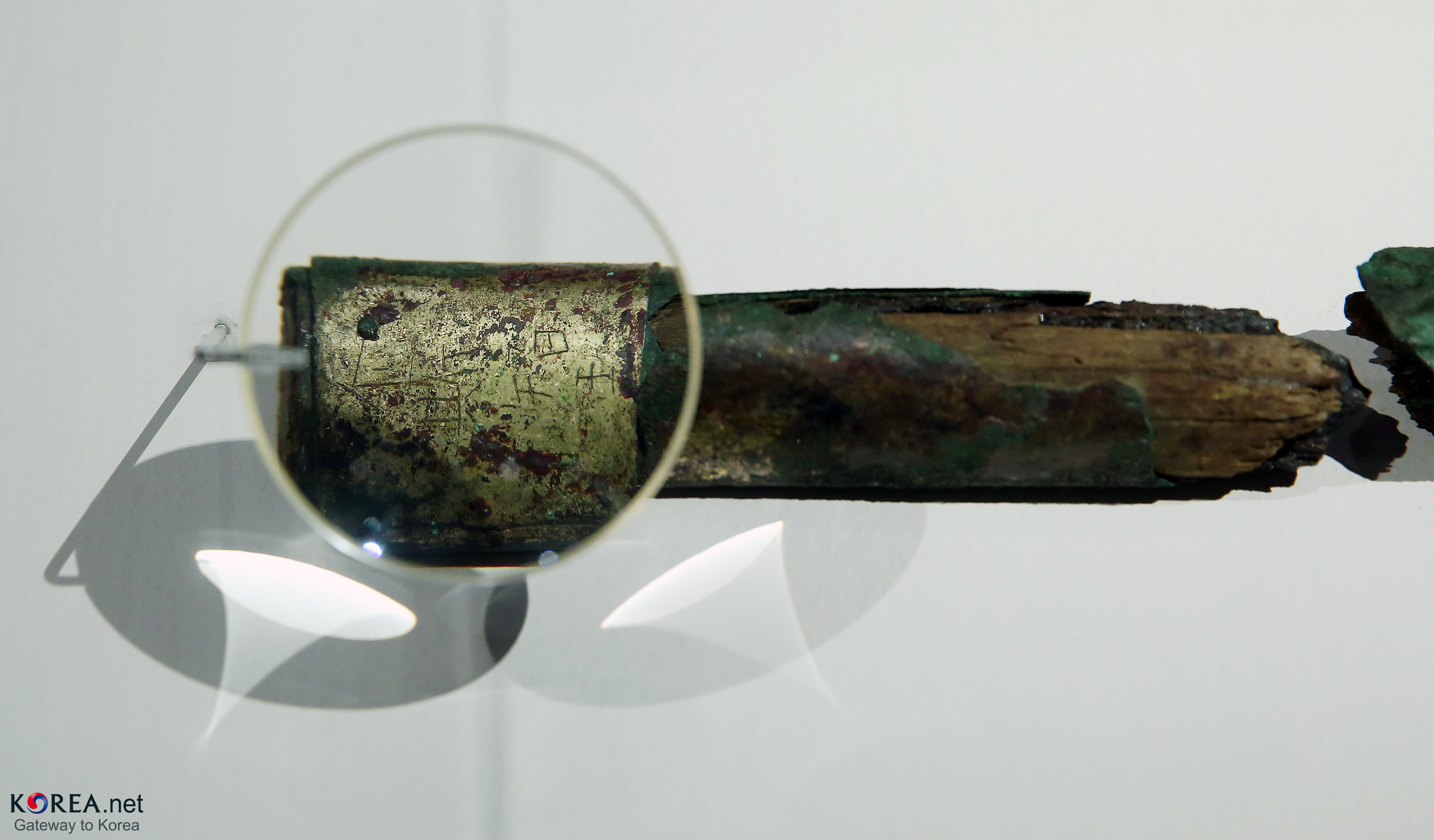 Special Exhibitions and symposium ‘The Geumgwanchong Tomb and King Isaji’ In 2013, ninety-two years after the discovery of the Geumgwanchong Tomb, the Conservation Science Department of the National Museum of Korea Found four Chinese characters(尒斯智王), meaning ‘King Isaji’, incised with a sharp tool at the end of the scabbard of a large ring-pommel sword. The researchers of the department discovered more characters, including ‘I’ (尒) incised at the hilt and ‘Sip’ (十) at the opposite side og the scabbard to the ‘King Isaji’ inscription. They also found three characters, ‘Pal’ (八), ‘Sip’ (十) and ‘I’ (尒), incised on another sword unearthed from the Geumgwanchong Tomb. July 11, 2014 National Museum of Korea, Yongsan-gu, Seoul Ministry of Culture, Sports and Tourism Korean Culture and Information Service ( Official Photographer: Jeon Han